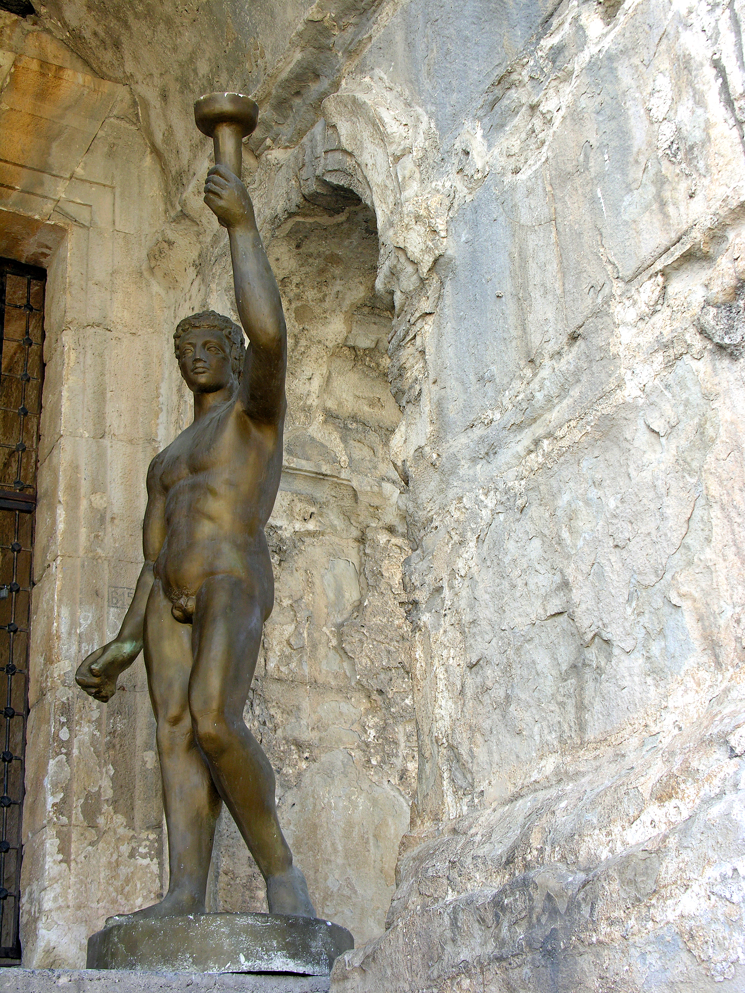 Turkey-2331